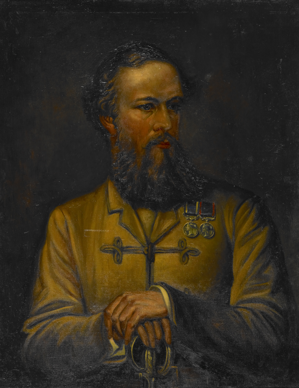 General John Nicholson (1821–1857) Oil on canvas, 91.5 x 71 cm Collection: British Library